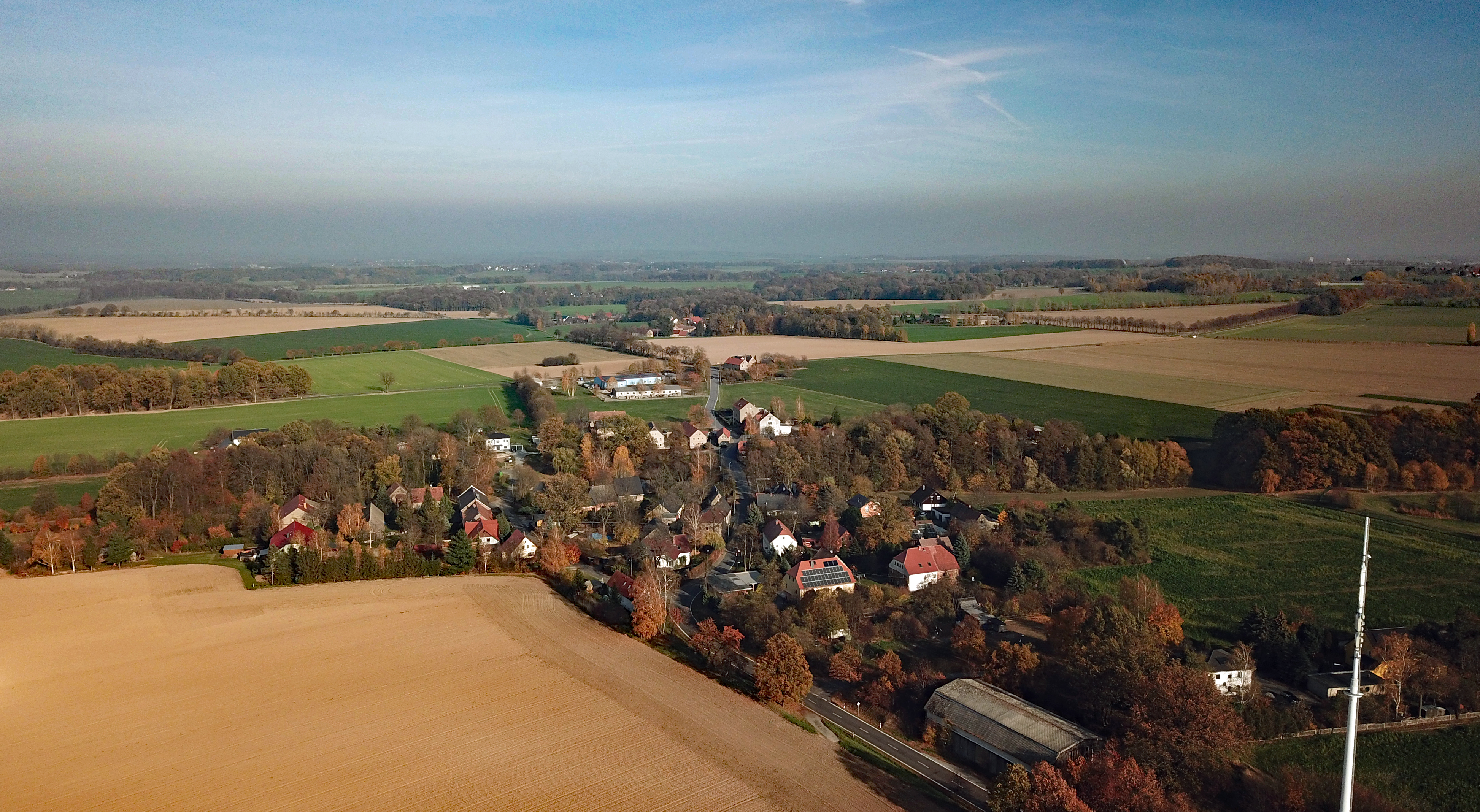 Bolbritz (Bautzen, Saxony, Germany) Hornjoserbsce: Powětrowy wobraz Bolborc